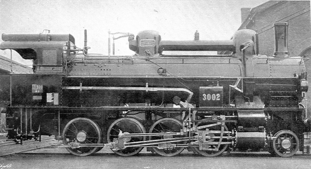 Golsdorf Compound "Consolidation" for the Austrian Southern Railway